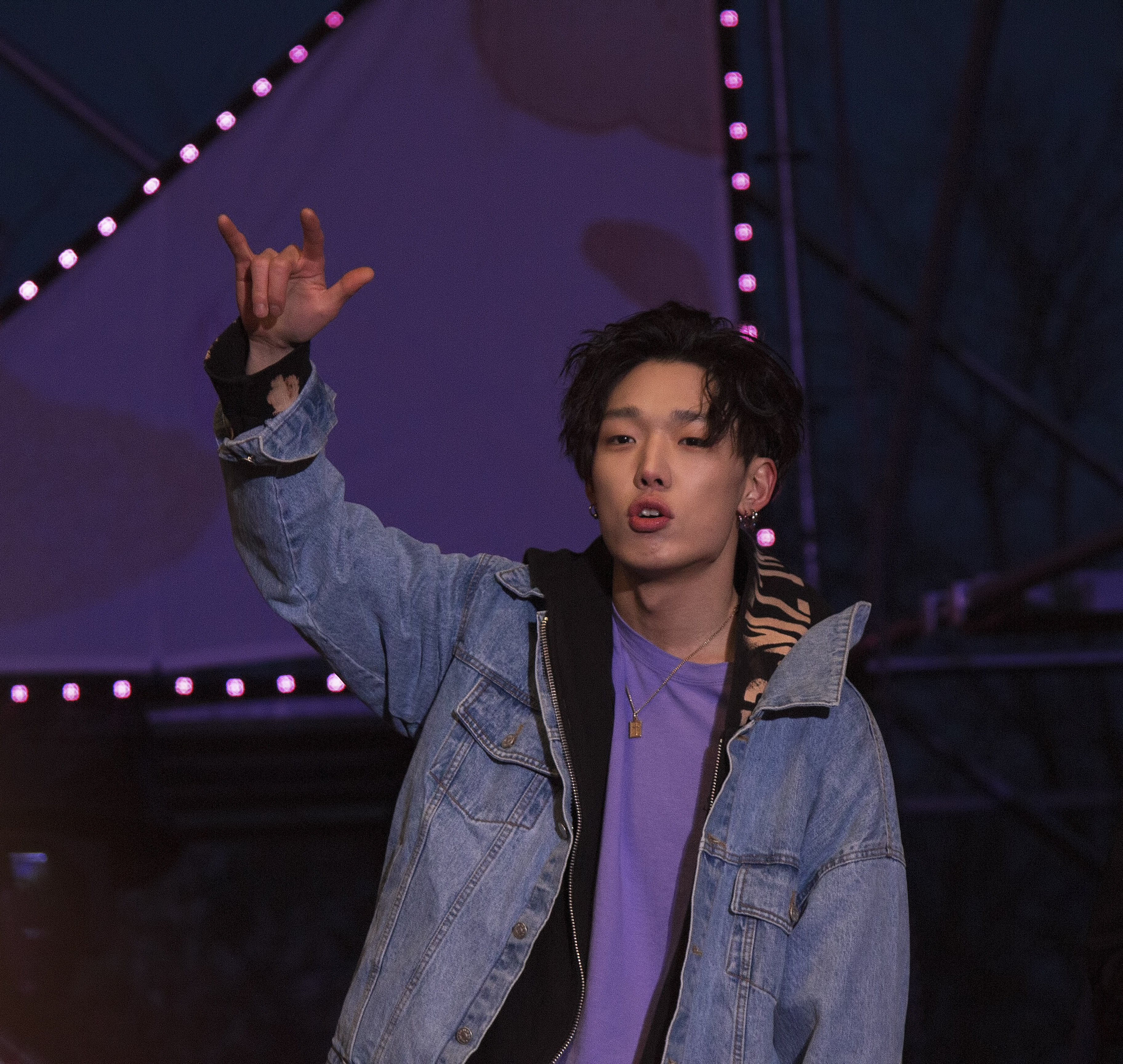 iKon's Bobby at the LG Cherry Blossom Festival in Naju on April 7, 2018.